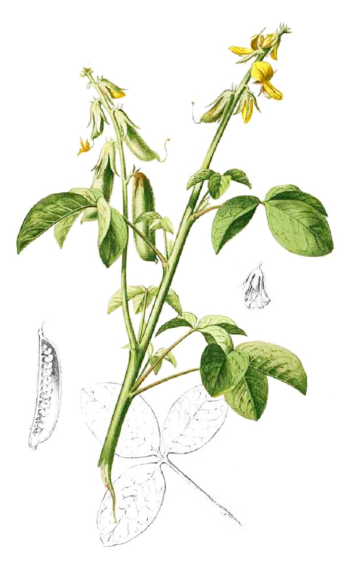 Crotalaria incana Plate from book